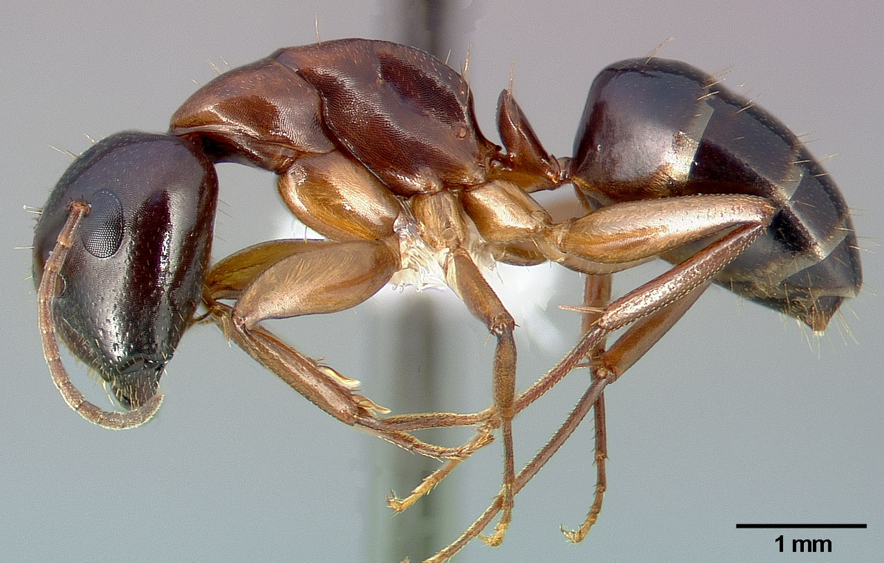 Profile view of ant Camponotus clarithorax specimen casent0005341.